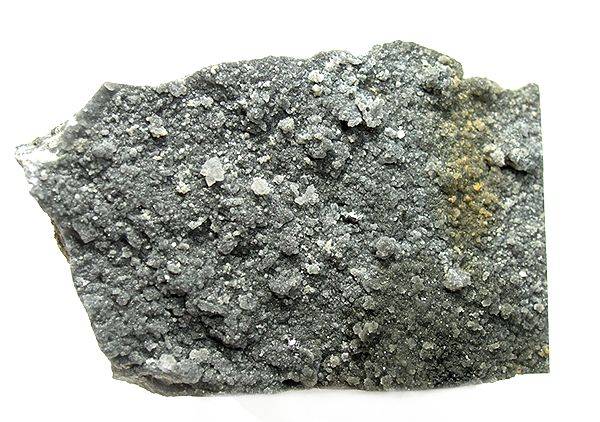 Tellurium Locality: Emperor Mine, Vatukoula, Tavua Gold Field, Viti Levu, Fiji (Locality at ) several very small, sub-mm crystals are scattered sparsely about. One approaches 1 mm in size. Perfect reference specimen for that regard. The back is cut and semi-polished, revealing rich and attractive veins of tellurium 6.9 x 4.2 x 1.1 cm